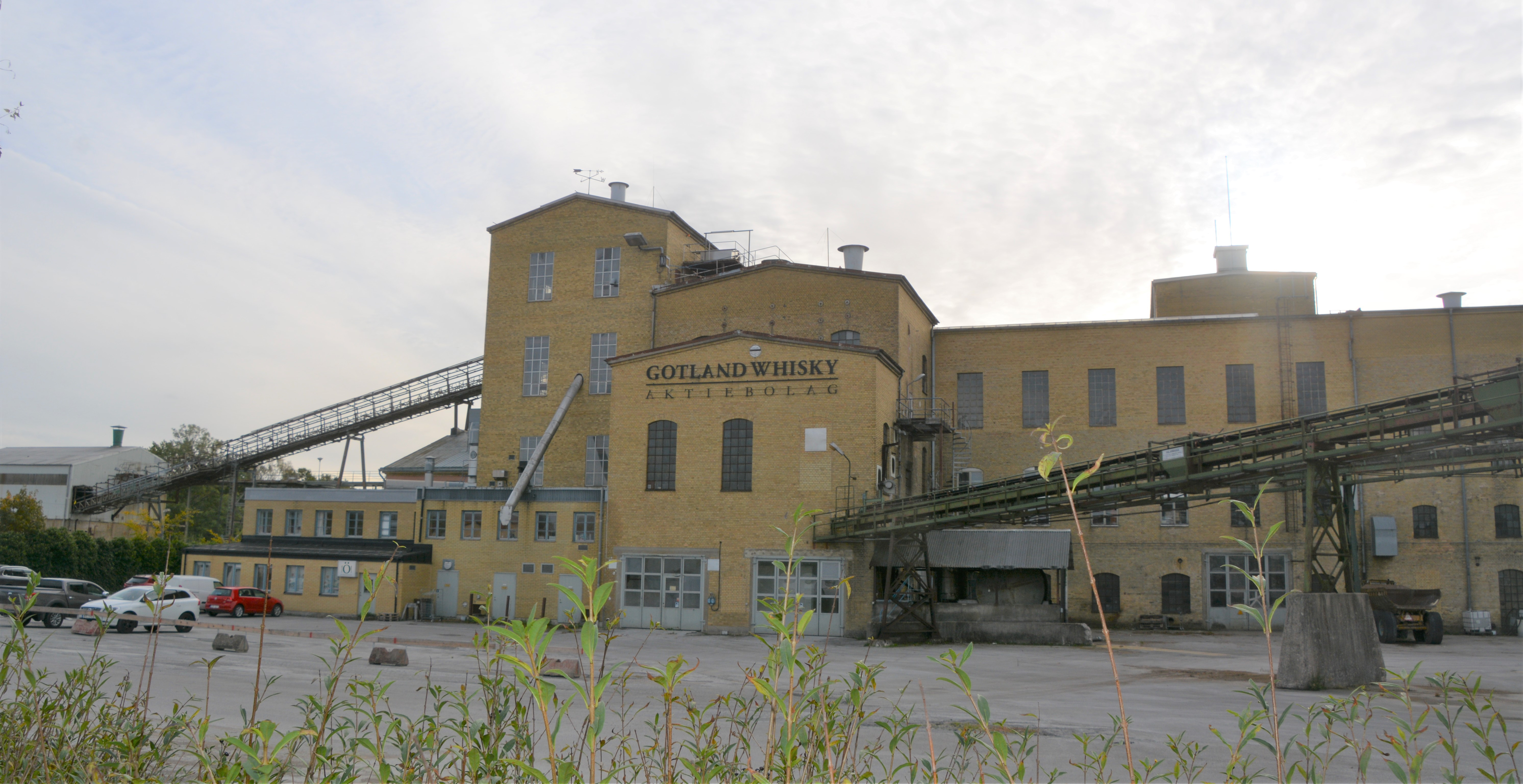 Earlier Roma Sockerbruk, Roma, Gotland, Sweden, now site of Gotland Whisky